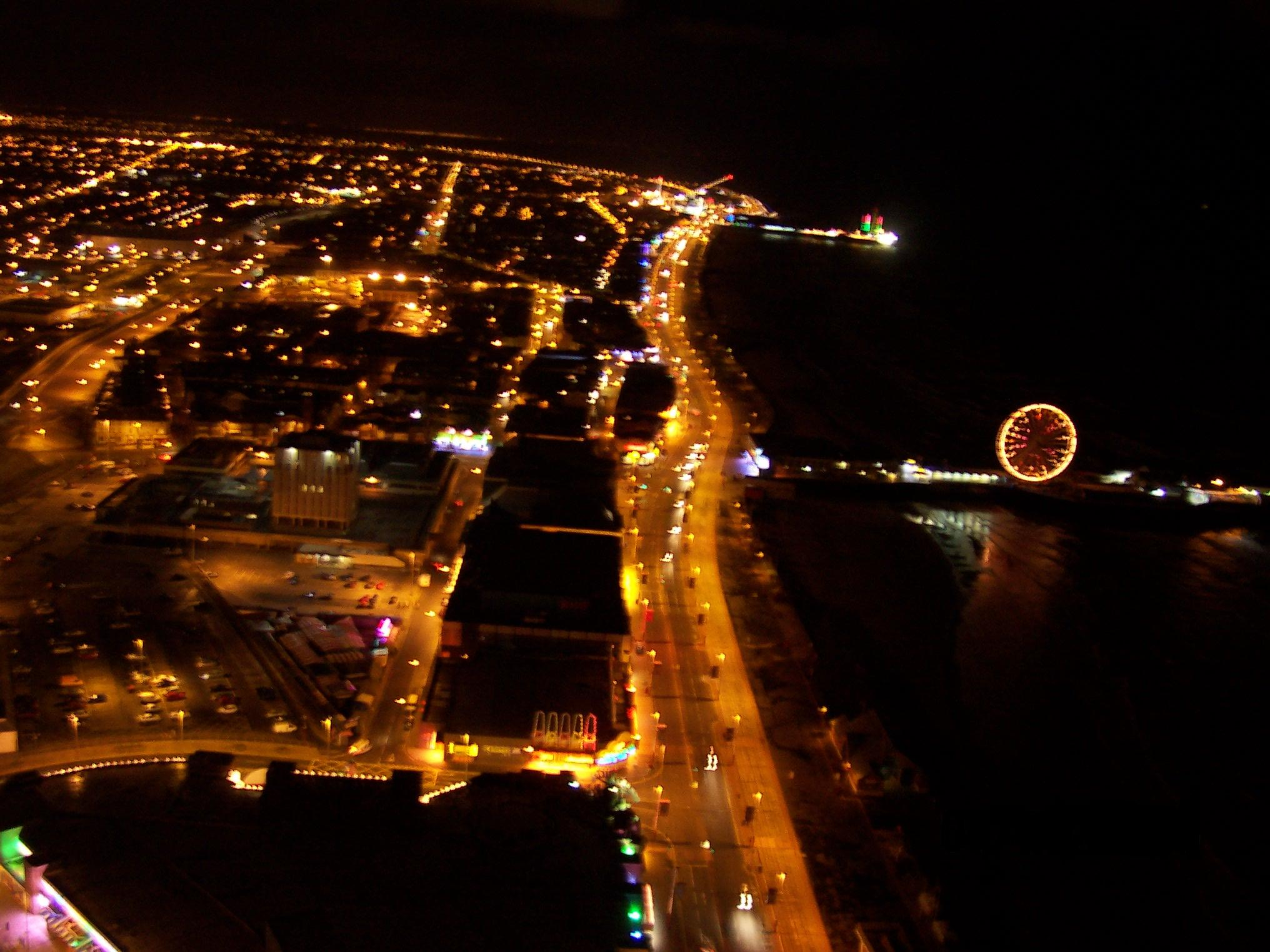 View from the Blackpool Tower, looking south, along the Irish Sea coastline.